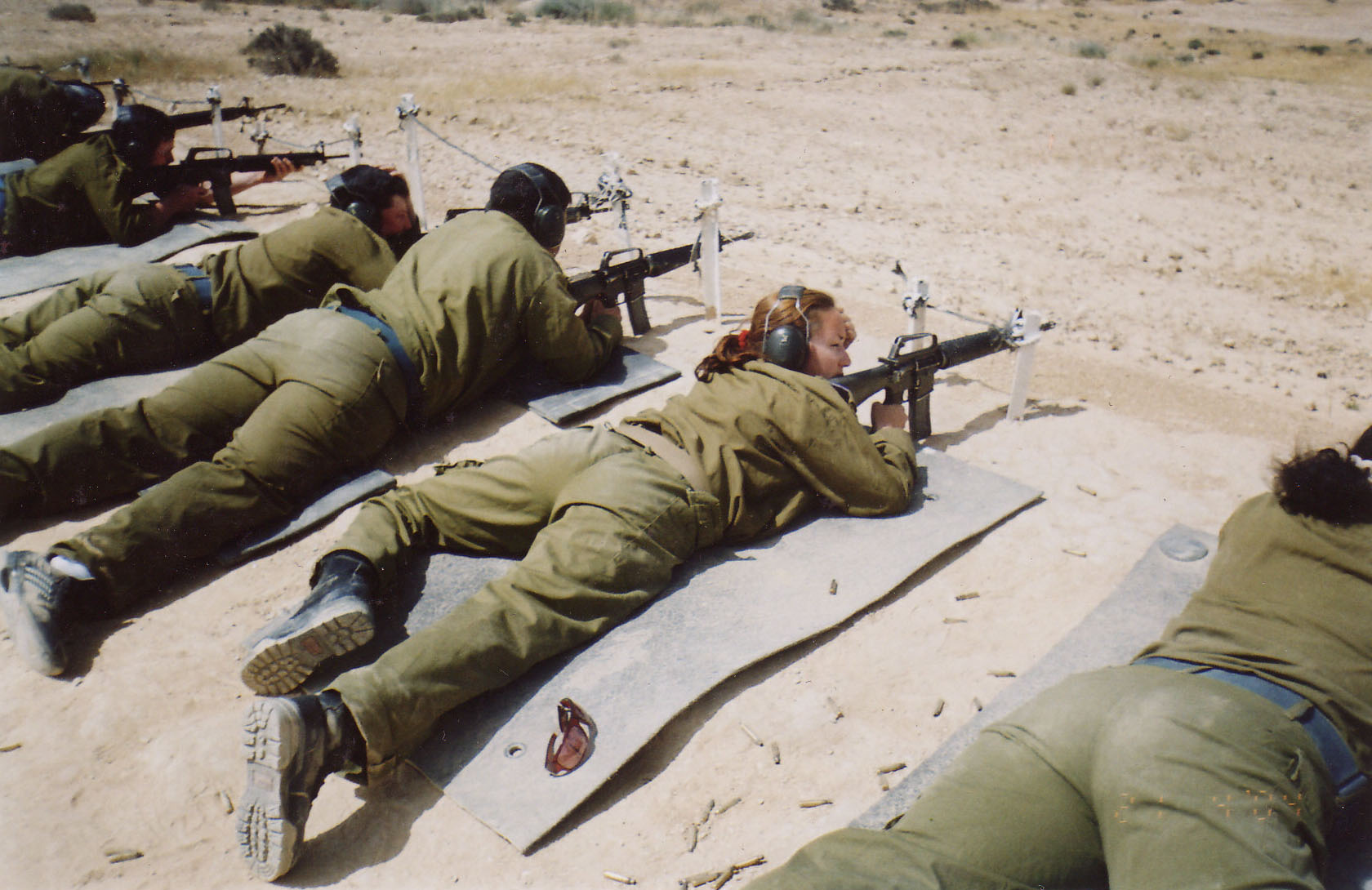 IDF Soldiers During A Shooting Practice